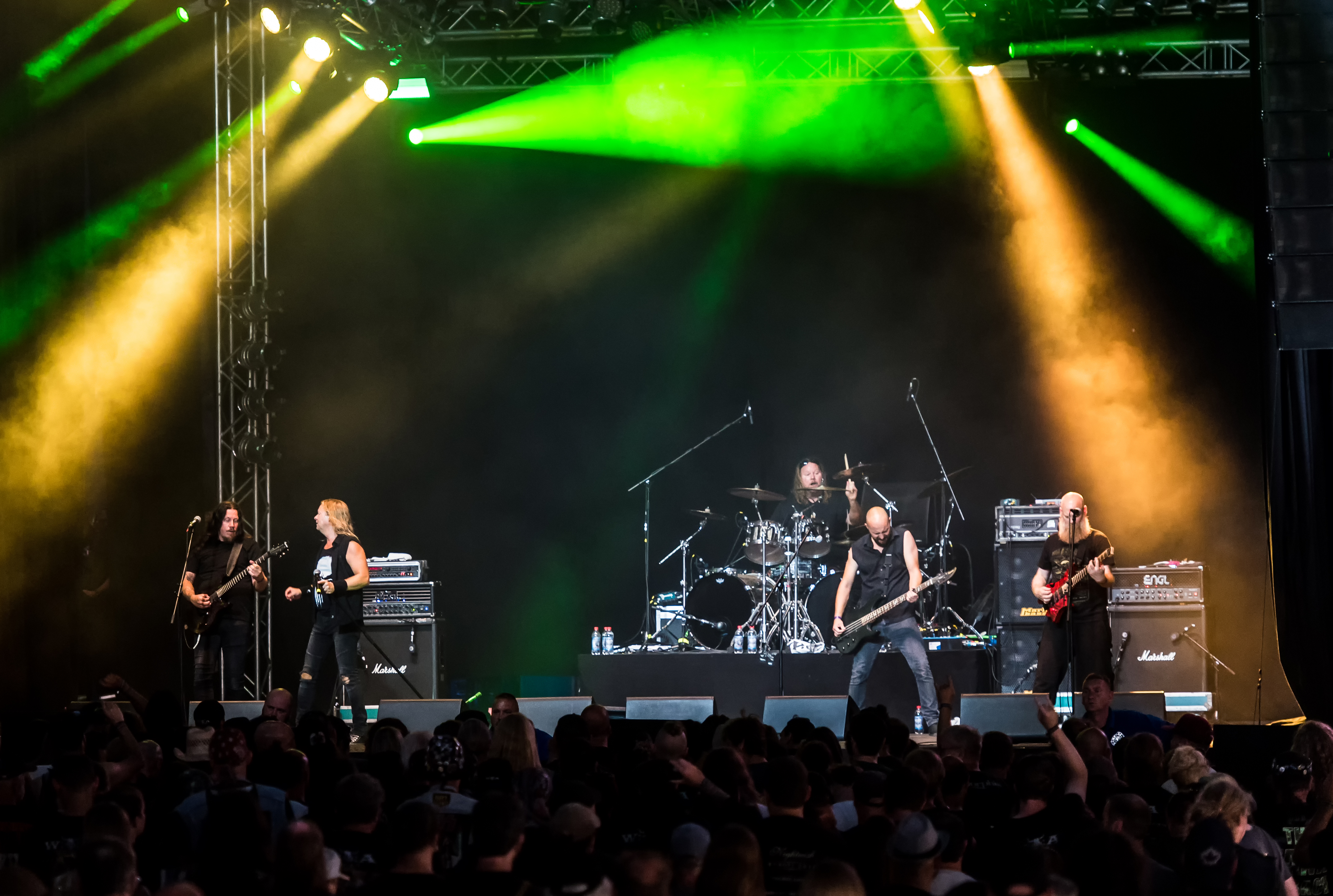 Nochturnal Rites playing at Wacken Open Air 2018